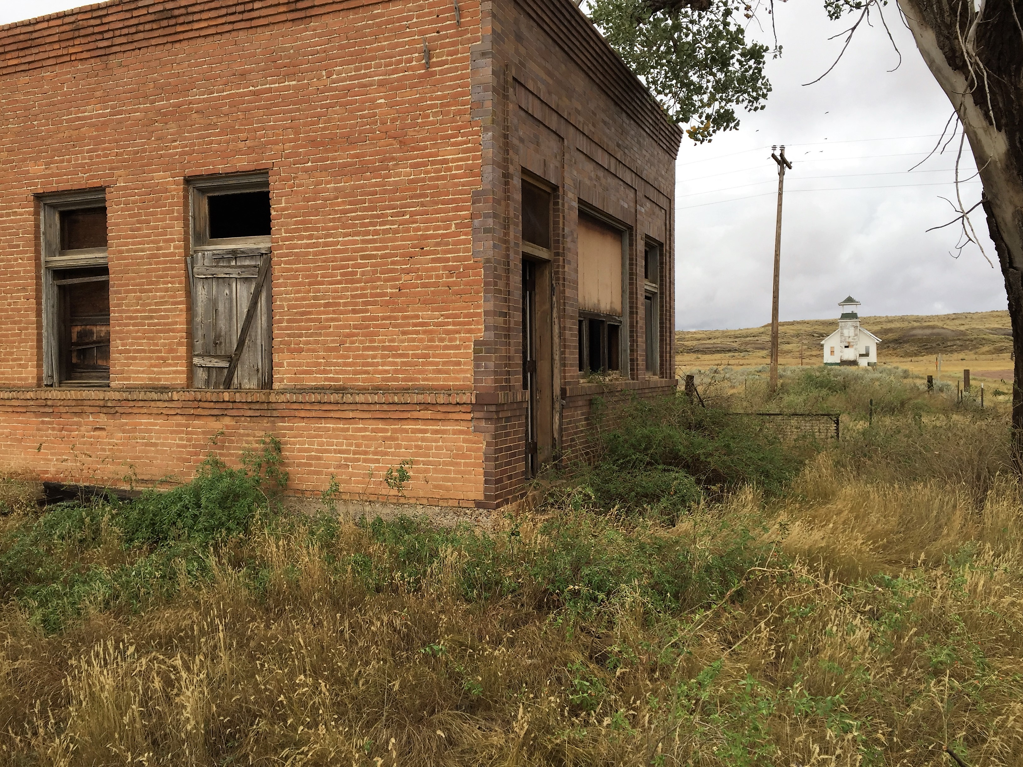 This photo shows an abandoned bank and church in the town of Mildred, MT